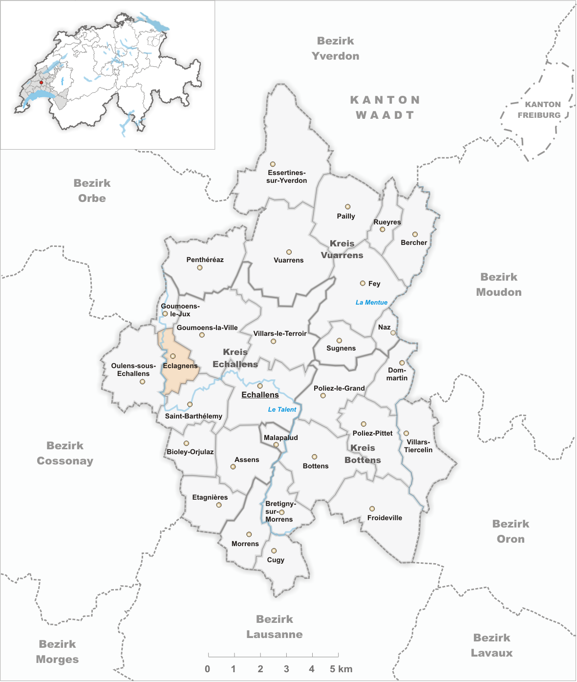 Municipality Eclagnens